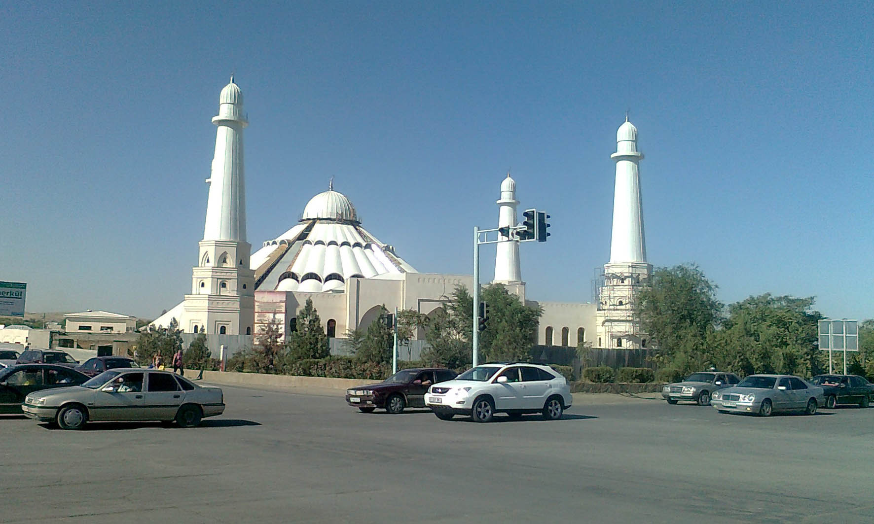 Shaikh Khalifa Mosque, Shymkent